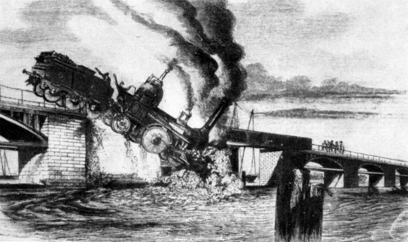 steam loco Jupiter crashes into the river Havel, Germany in 1856